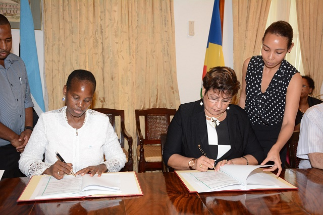 Minister of Education and Skills Development of Botswana Unity Dow (left) and Seychelles Minister for Education Macsuzy Mondon during the signing a memorandum of understanding.